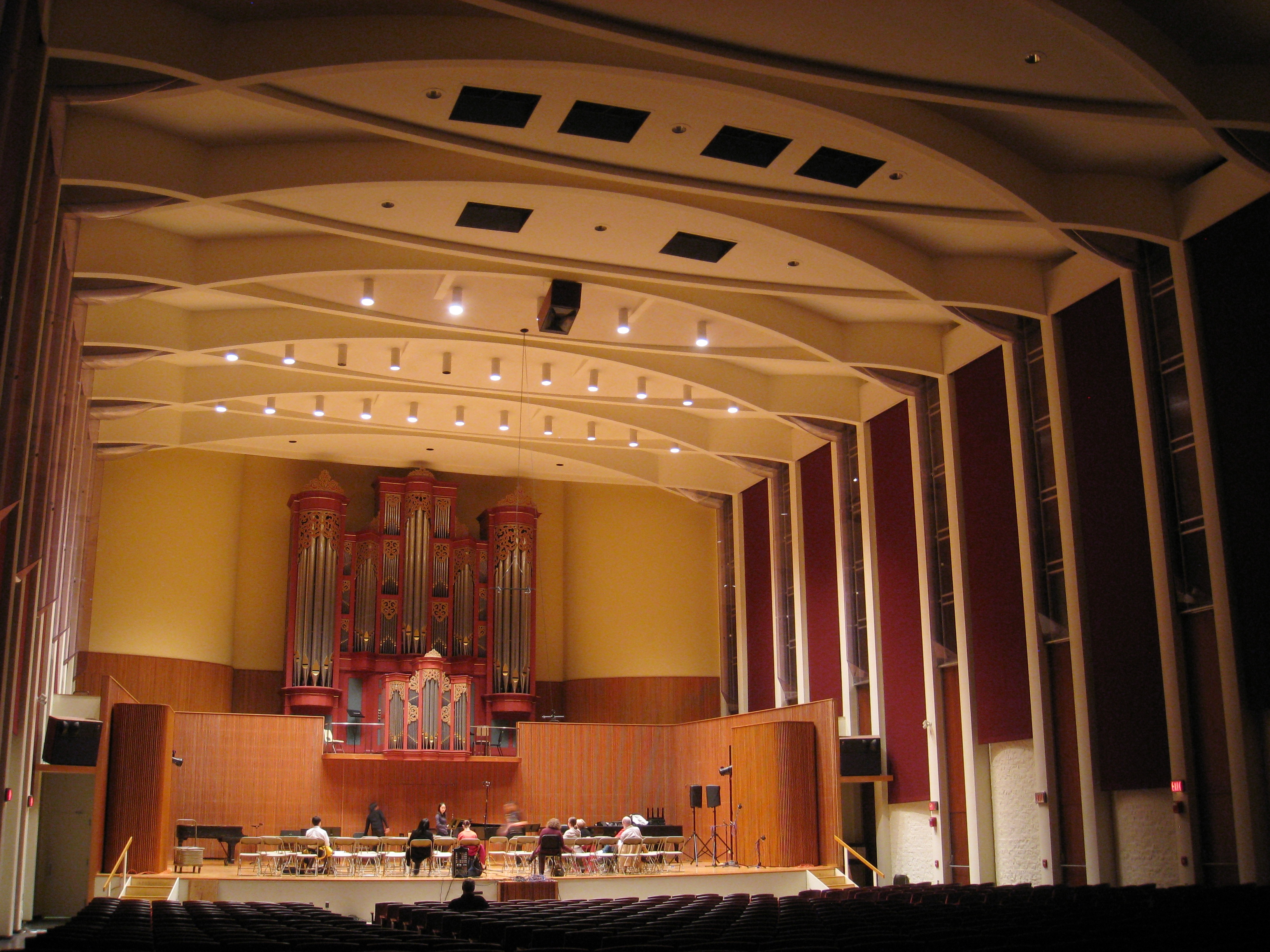 Warner Concert Hall, Oberlin Conservatory, Oberlin, Ohio, USA. I took this photograph.